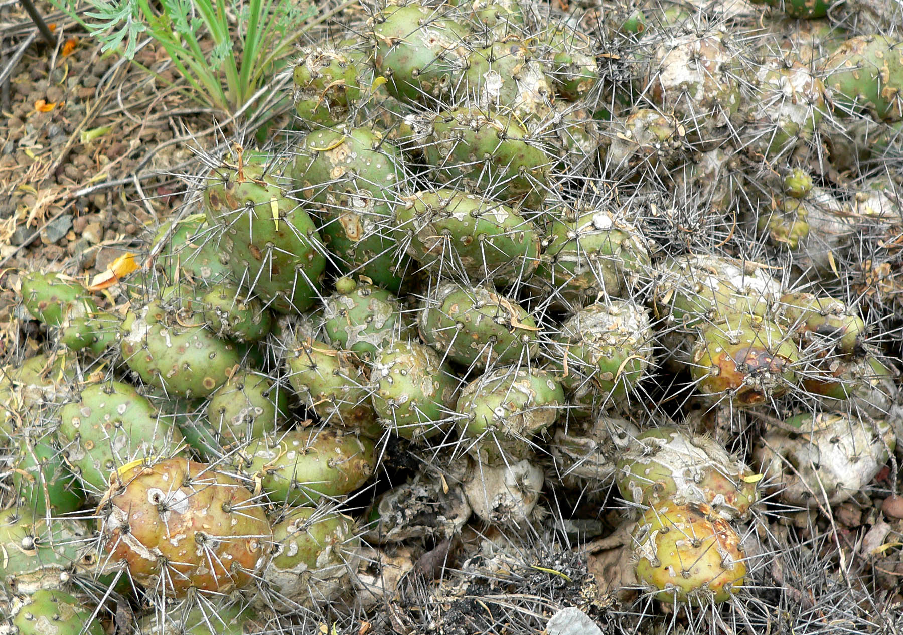 Photo of Opuntia fragilis at the University of California Botanical Garden